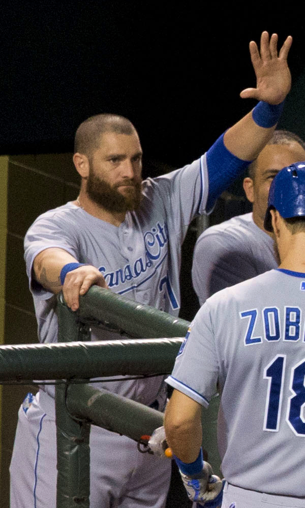 Jonny Gomes